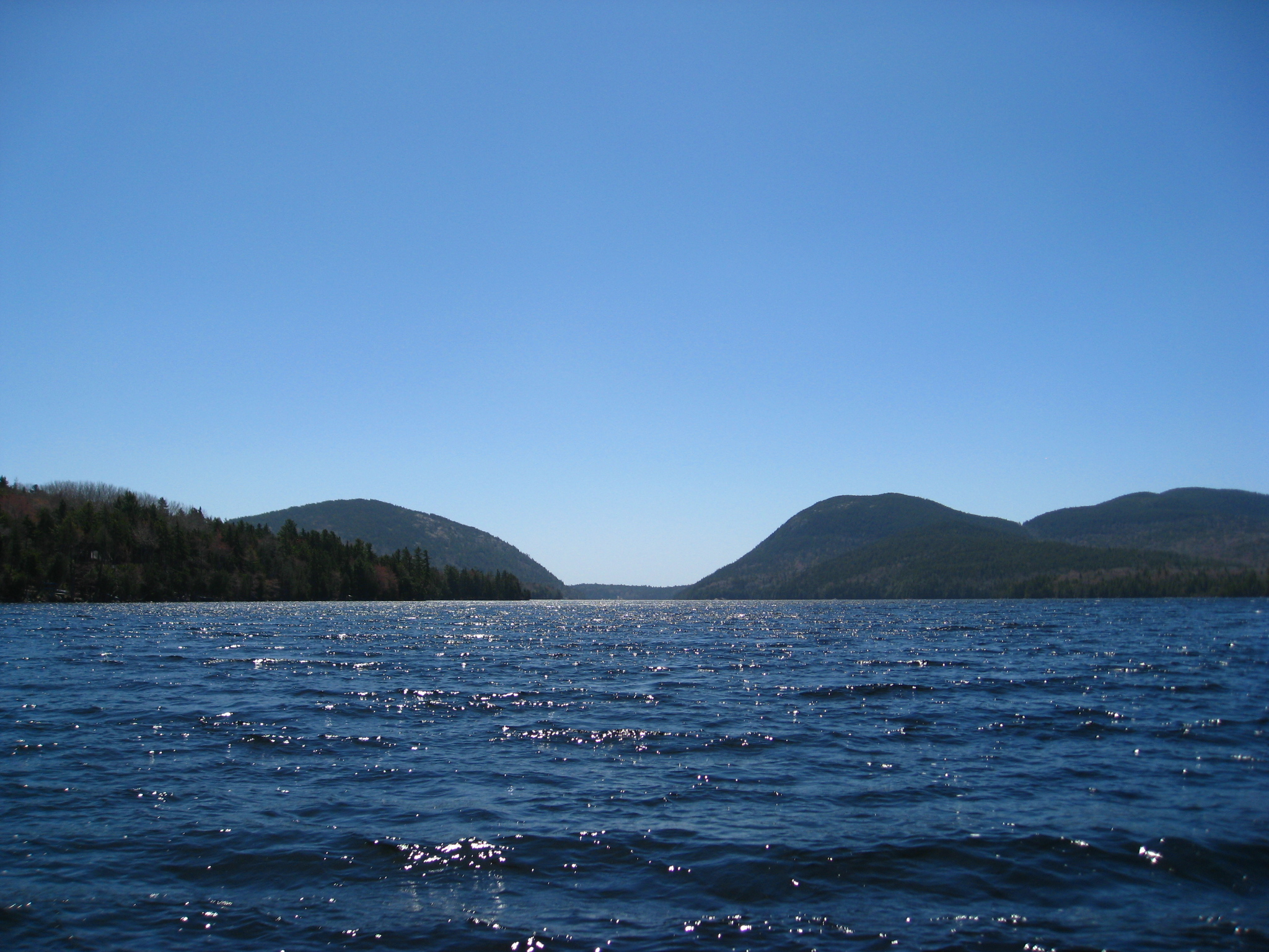 A picture of Long Pond in the towns of Mount Desert and Southwest Harbor, Maine. This picture was taken with a Canon PowerShot SD850 IS digital ELPH camera.